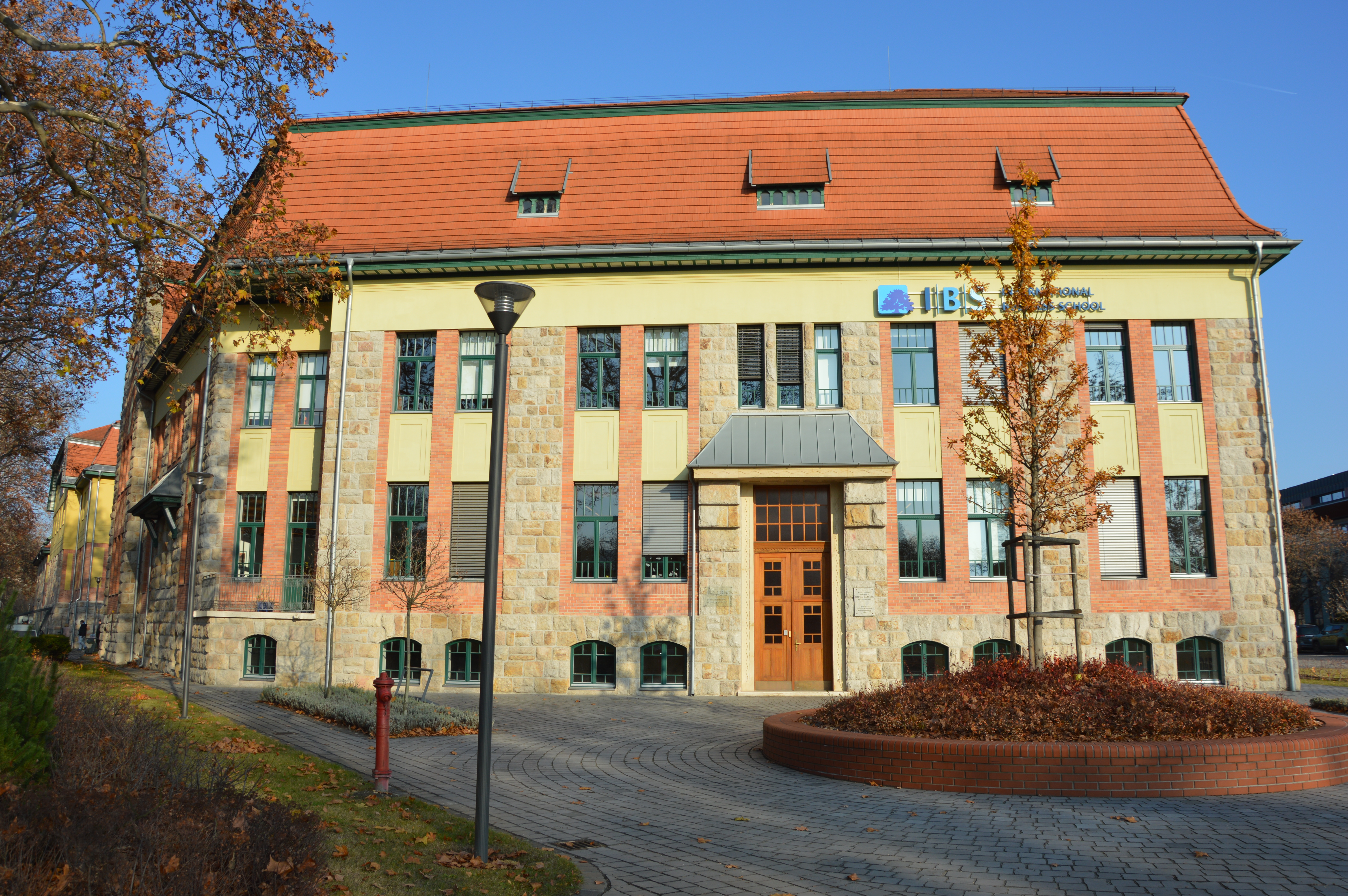 IBS International Business School Budapest campus main building